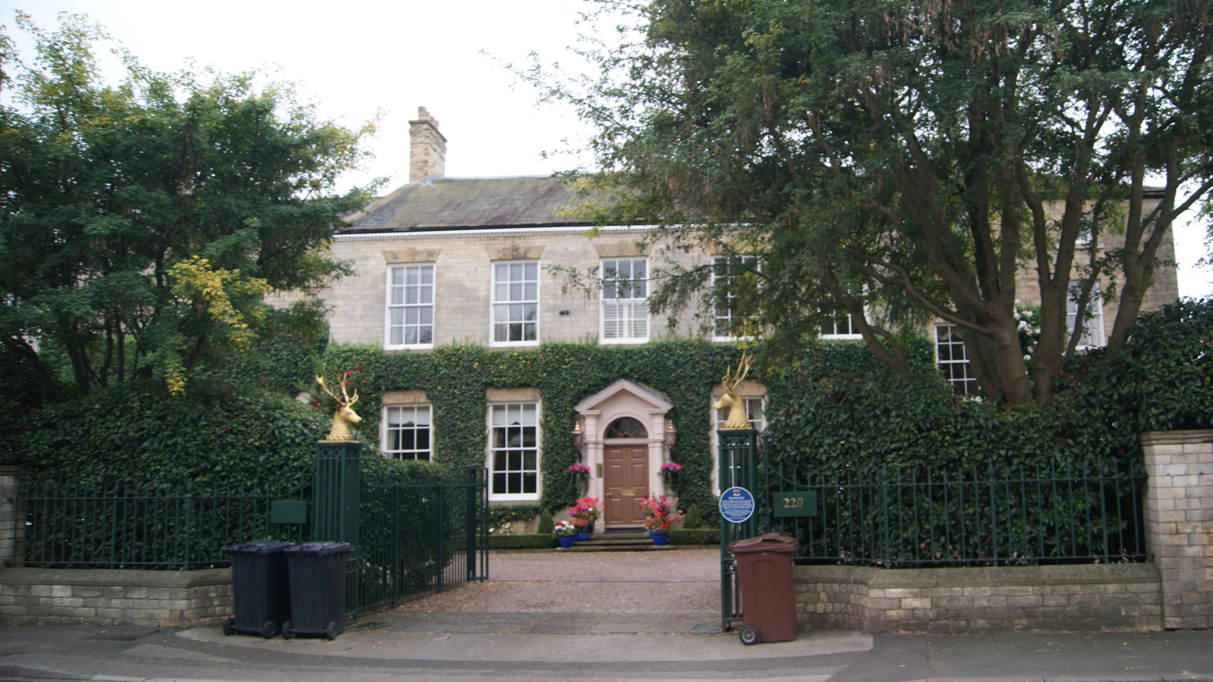 Boston Hall, High Street, Boston Spa, West Yorkshire. Taken on the evening of Monday the 21st of August 2017.